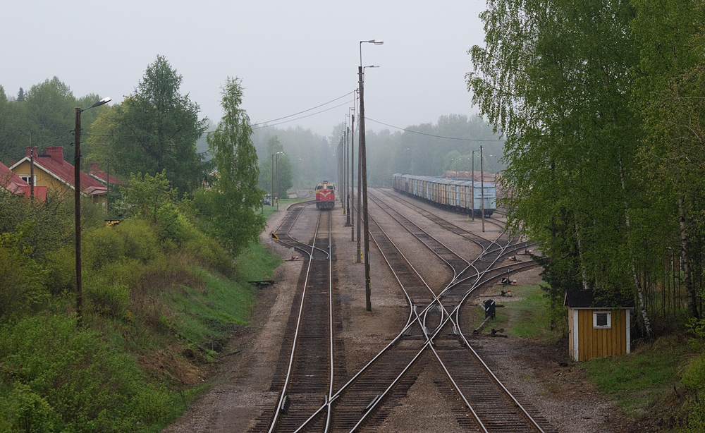 Heinola rail yard in Heinola, Finland, seen from south